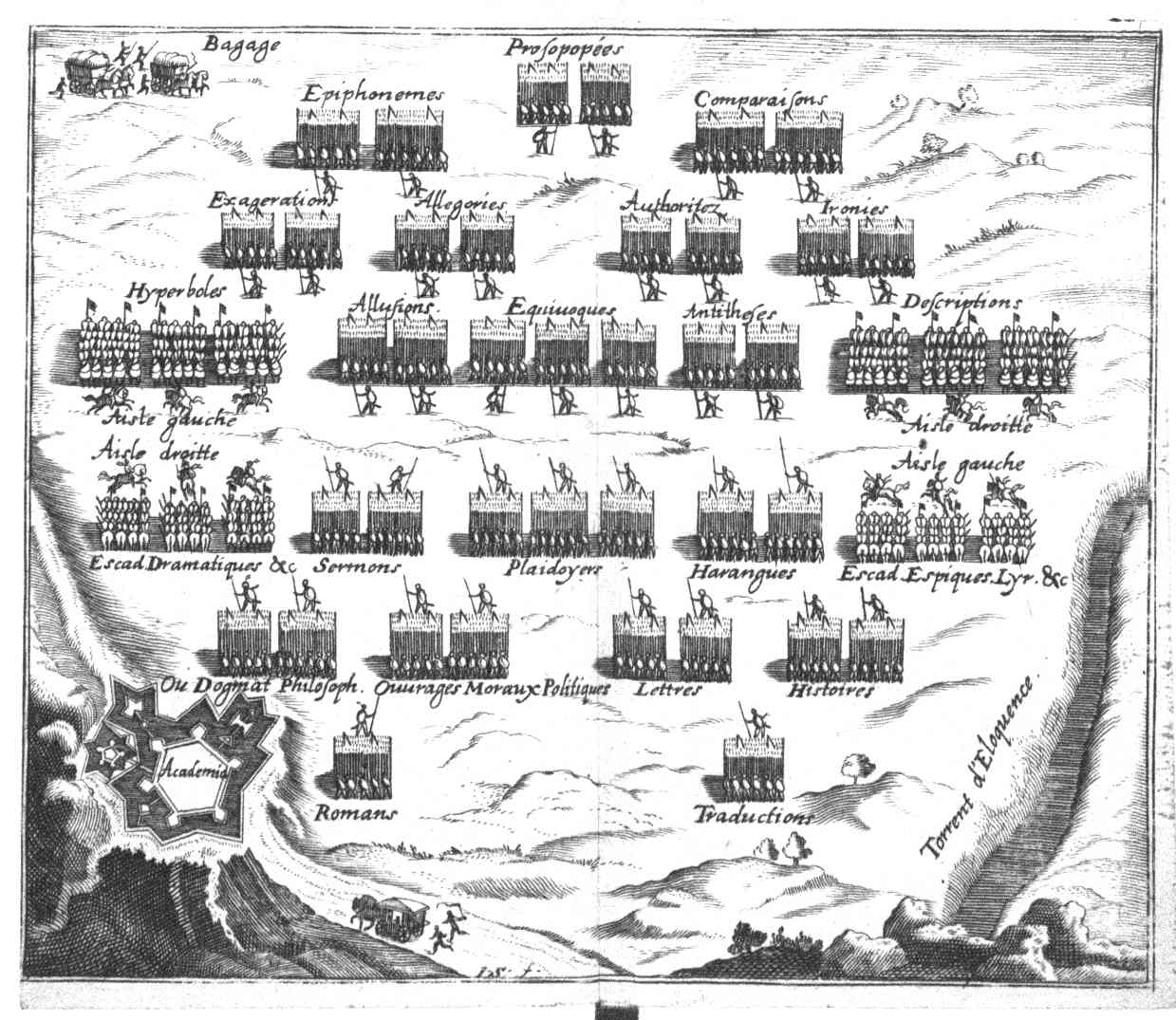 Allegory of Grammar and Style from Antoine Furetière's Nouvelle Allegorique, Ou Histoire Des Derniers Troubles Arrivez Au Royaume D'Eloquence